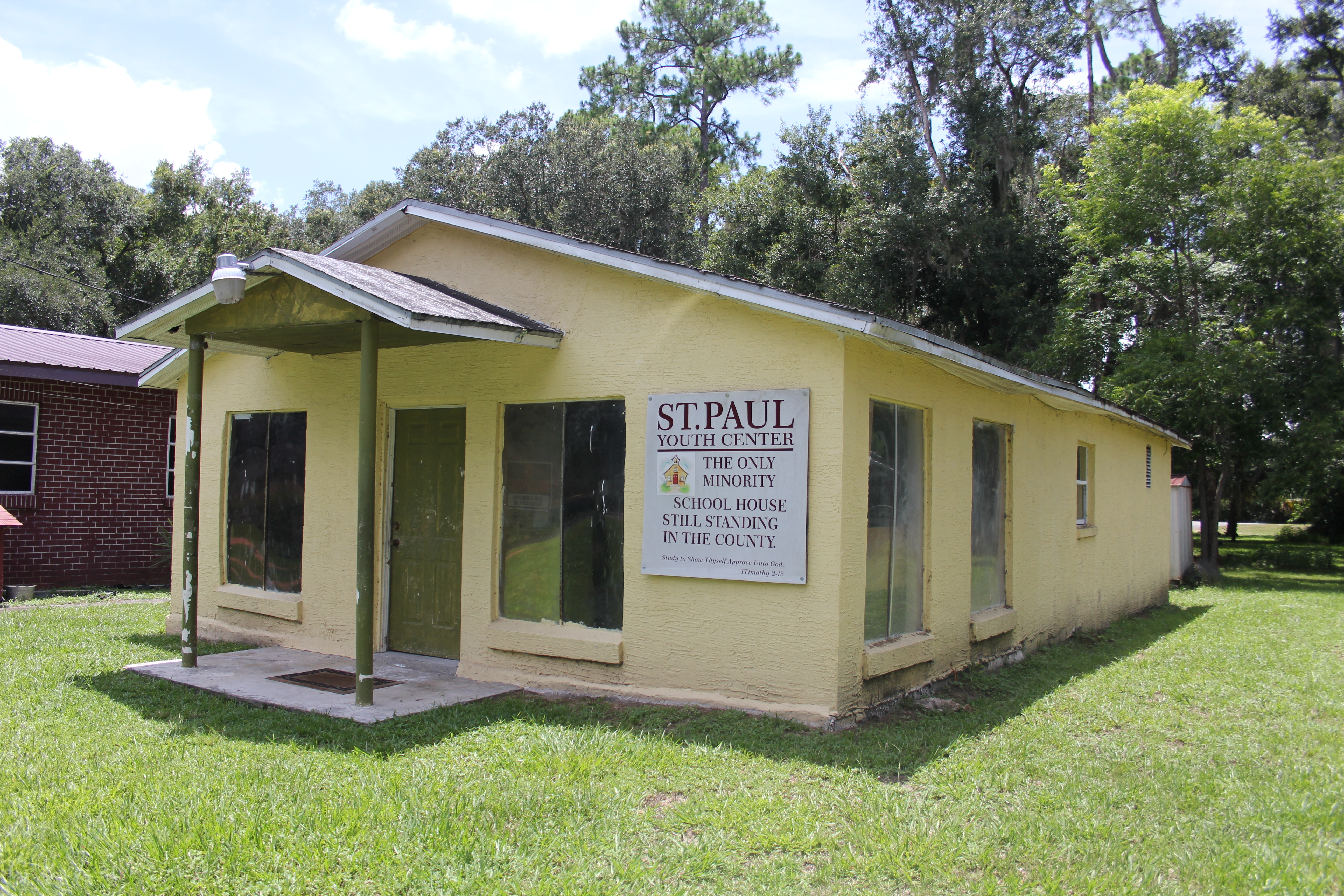 NE View of the Espanola Schoolhouse (a one-room black-only school from the Jim Crow era) - located in Bunnell, Florida.